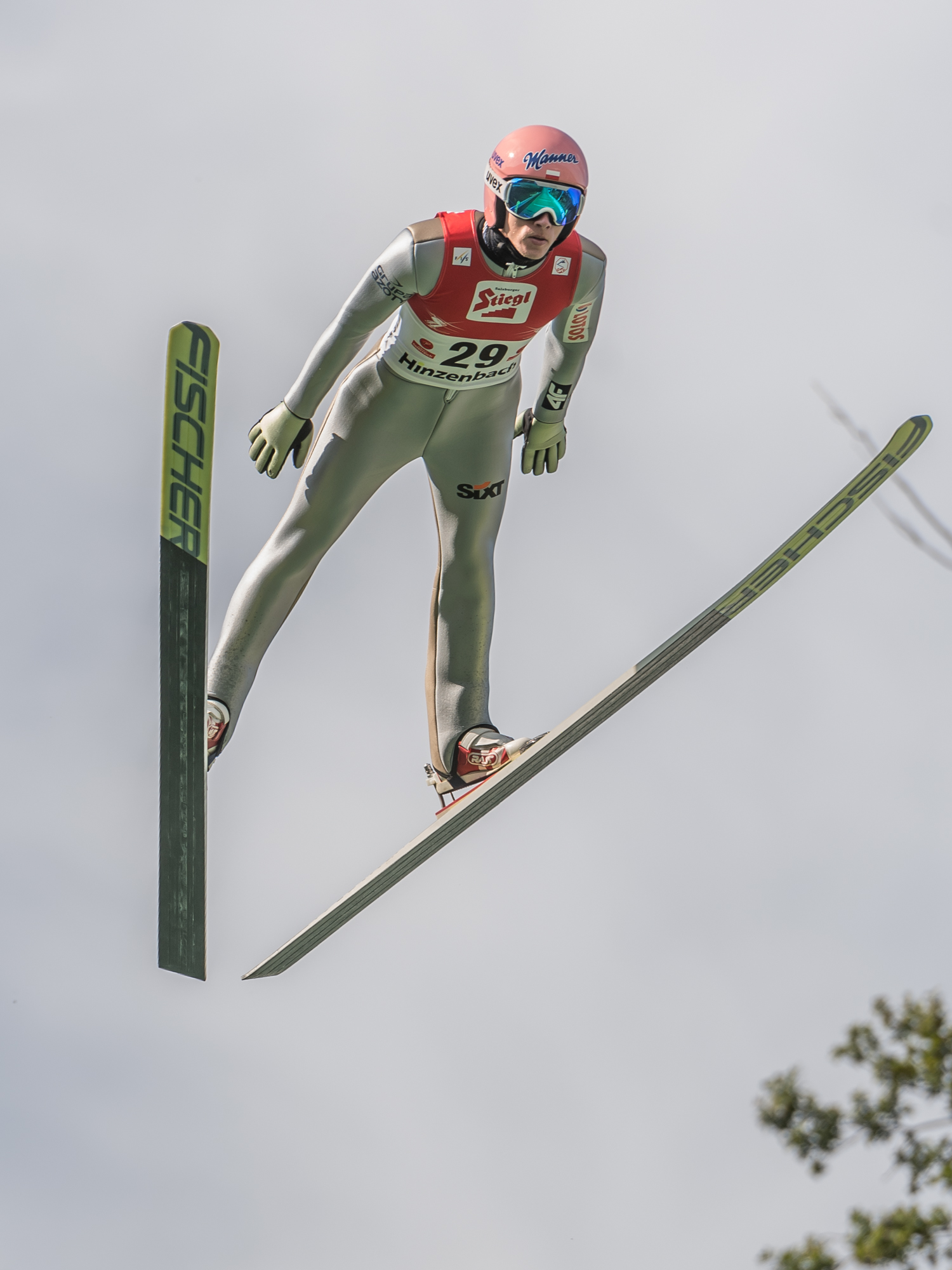 Hinzenbach, Austria, FIS Ski Jumping Grand Prix 2016